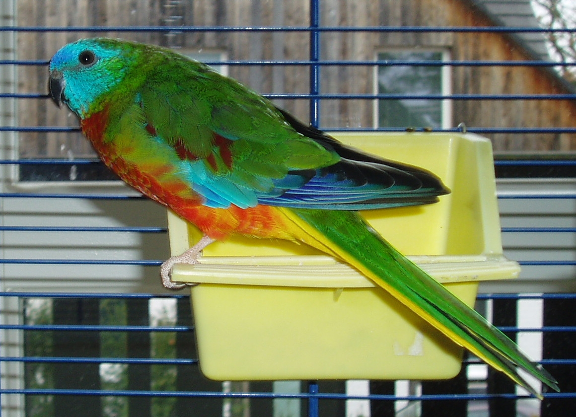 Turquoise Parrot(Neophema pulchella), male